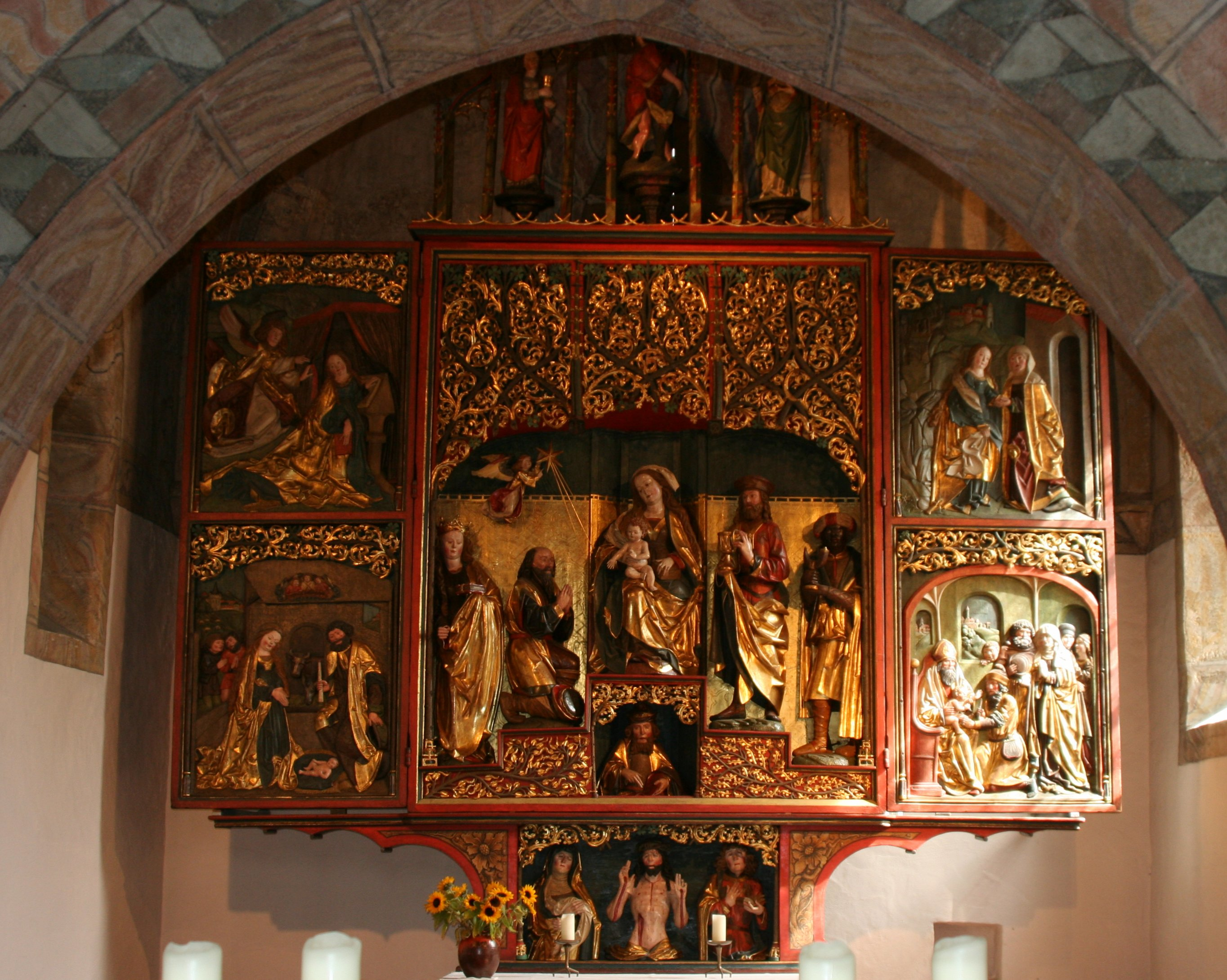 Altar in the church of the Holy Cross, Saint Peter and Genovefa in Ellhofen, Germany